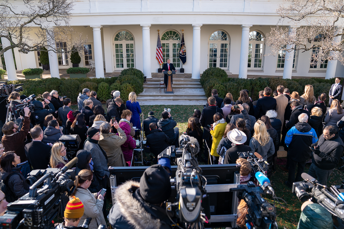 President Donald J. Trump delivers remarks on the government shutdown Friday, January 25, 2019, in the Rose Garden. (Official White House Photo by Tia Dufour)